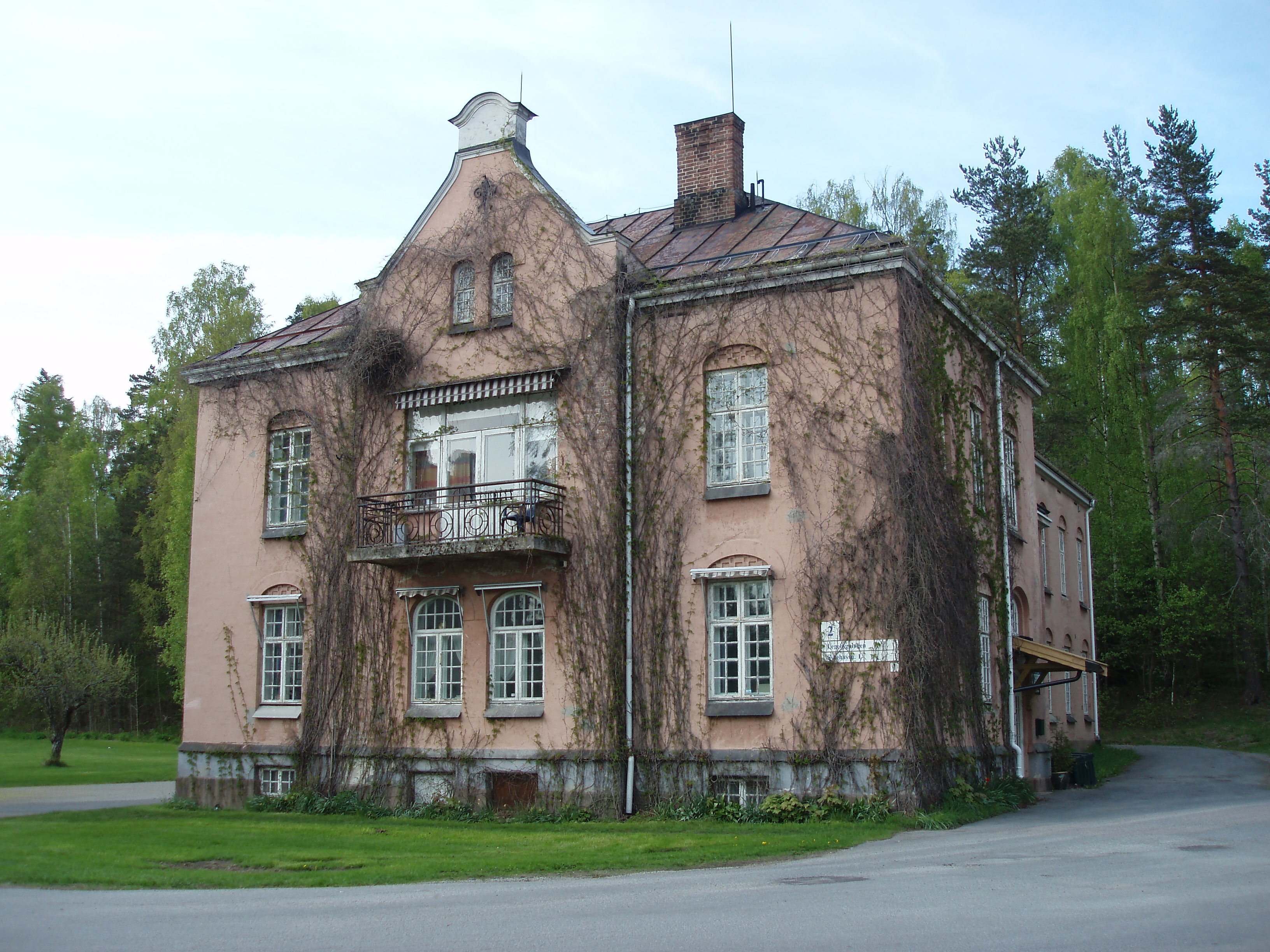 The building called "Legebygningen" at Dikermark Hospital in Asker in Norway.